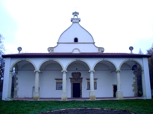 Ksiaz Wielki - building on castle corral